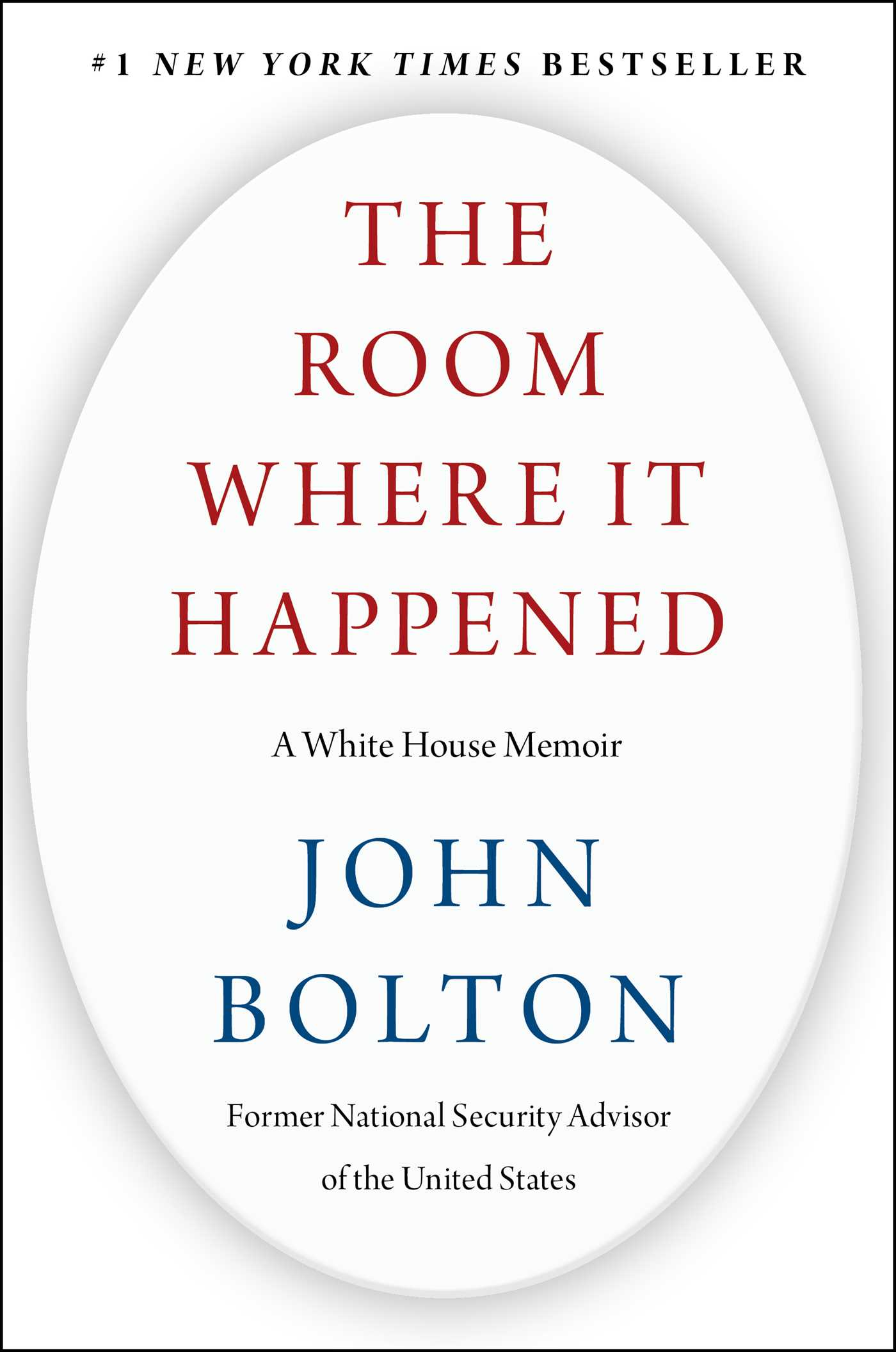 The cover of the book "The Room Where It Happened" by John Bolton, scheduled for release March 17, 2020